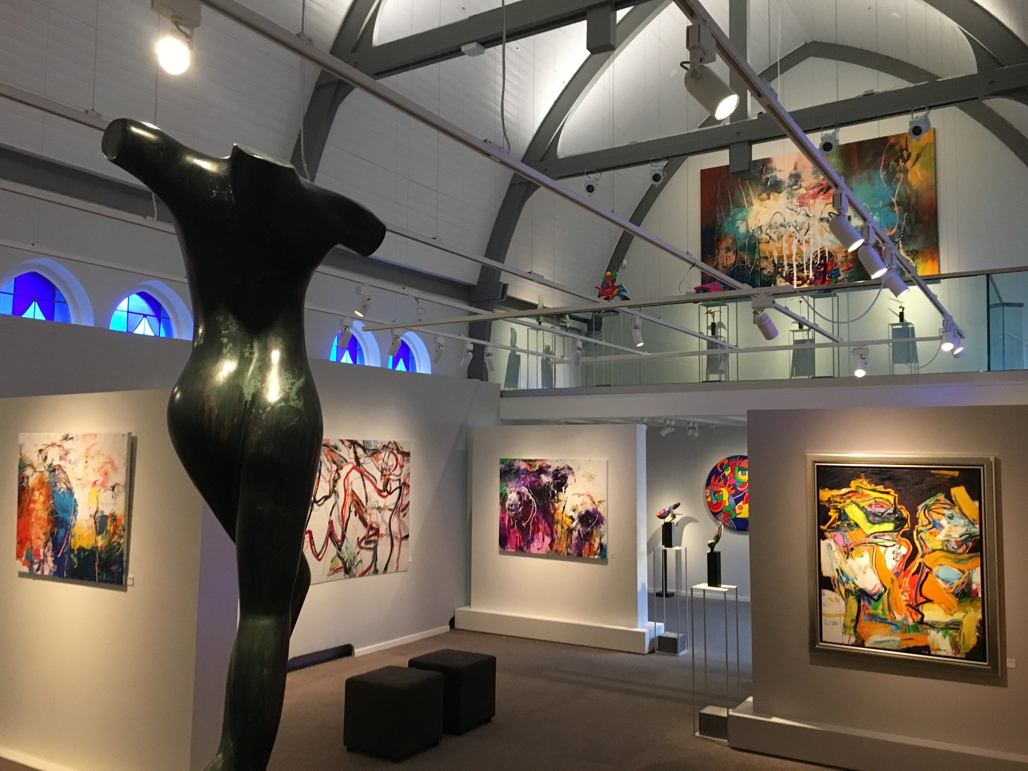 Exposition at Musiom